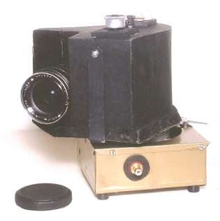 Photographic machine 360º Invented by: Sebastião Carvalho Leme - resident Photographer in Marília - São Paulo - Brasil.